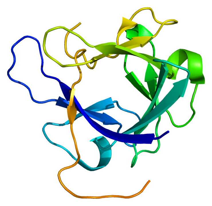 Structure of the FGF19 protein. Based on PyMOL rendering of PDB 1pwa.